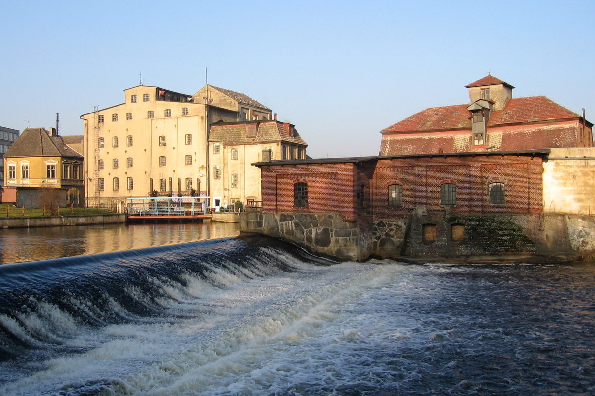 Old flour mill building in Gryfice, Poland